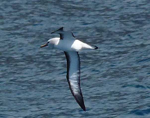 Thalassarche chlororhynchos, Tristan da Cunha